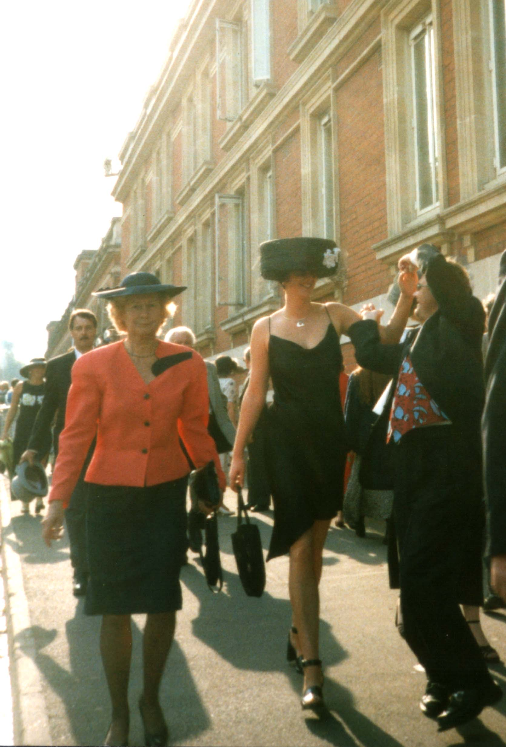 High Fashion and Elegance at Royal Ascot